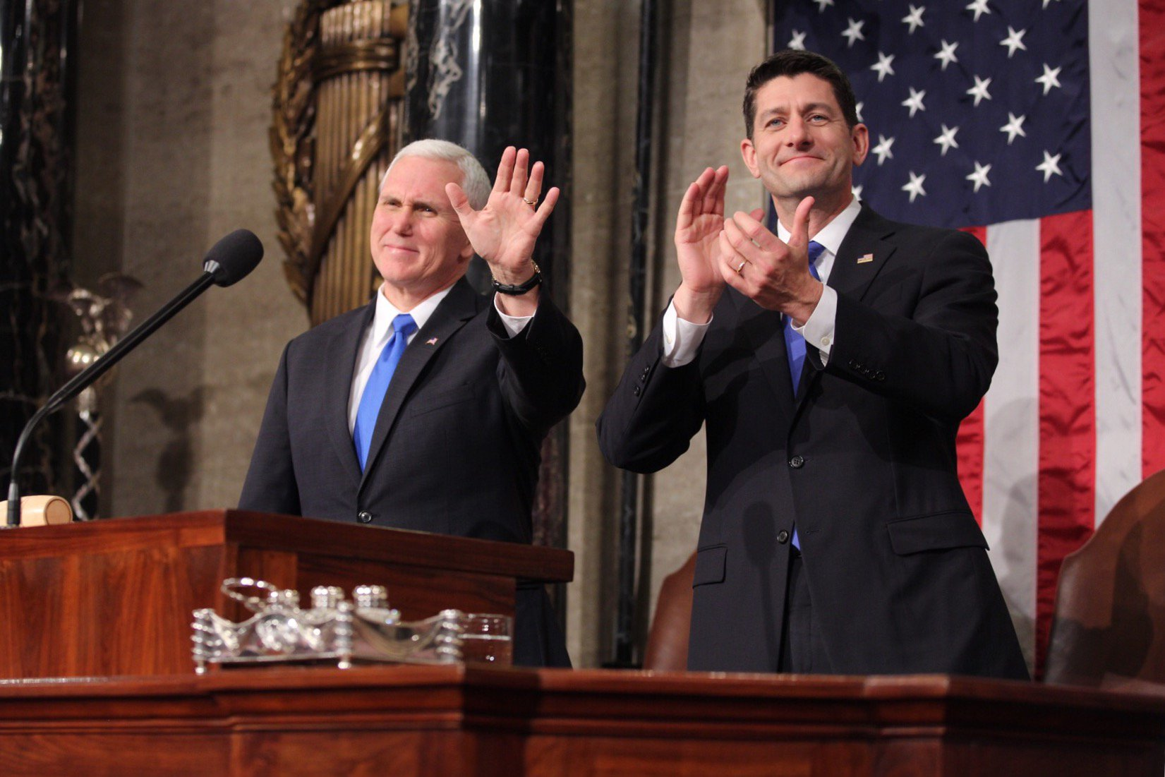 Vice President Mike with Speaker of the House Paul Ryan at President Donald Trump's February 28, 2017 address to a joint session of Congress.